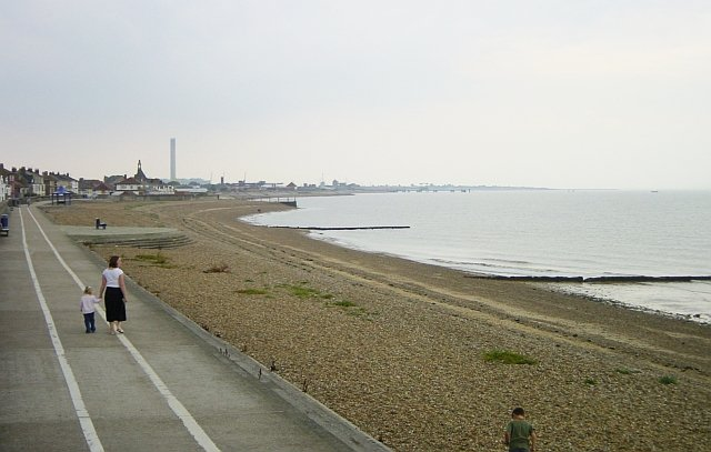 Jacob's Bank, Sheerness